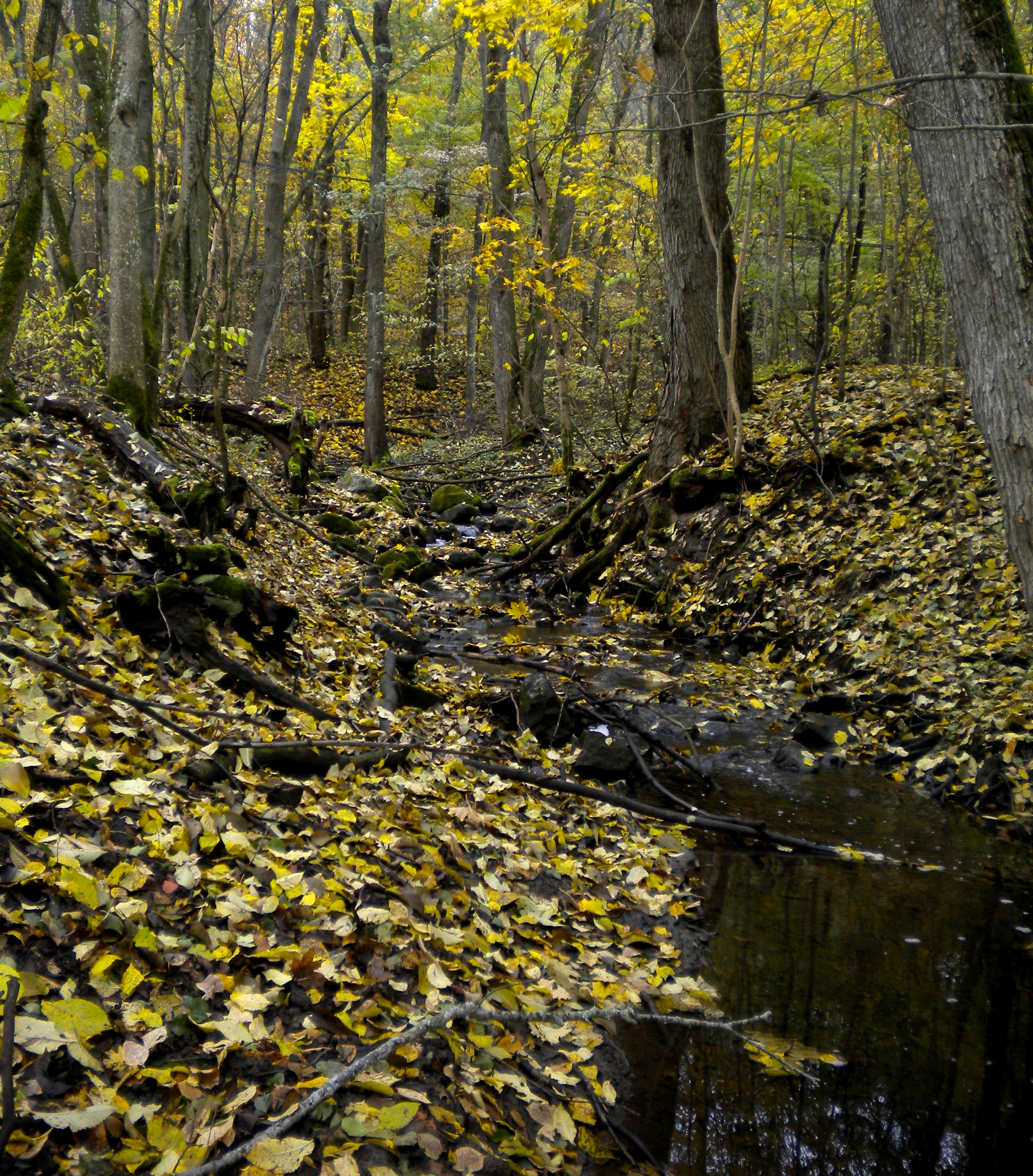 This is an picture of the stream called Linaån or Linabäcken in the autumn. This forest is a part of the nature reserve called Lina in Södertälje, Sweden.